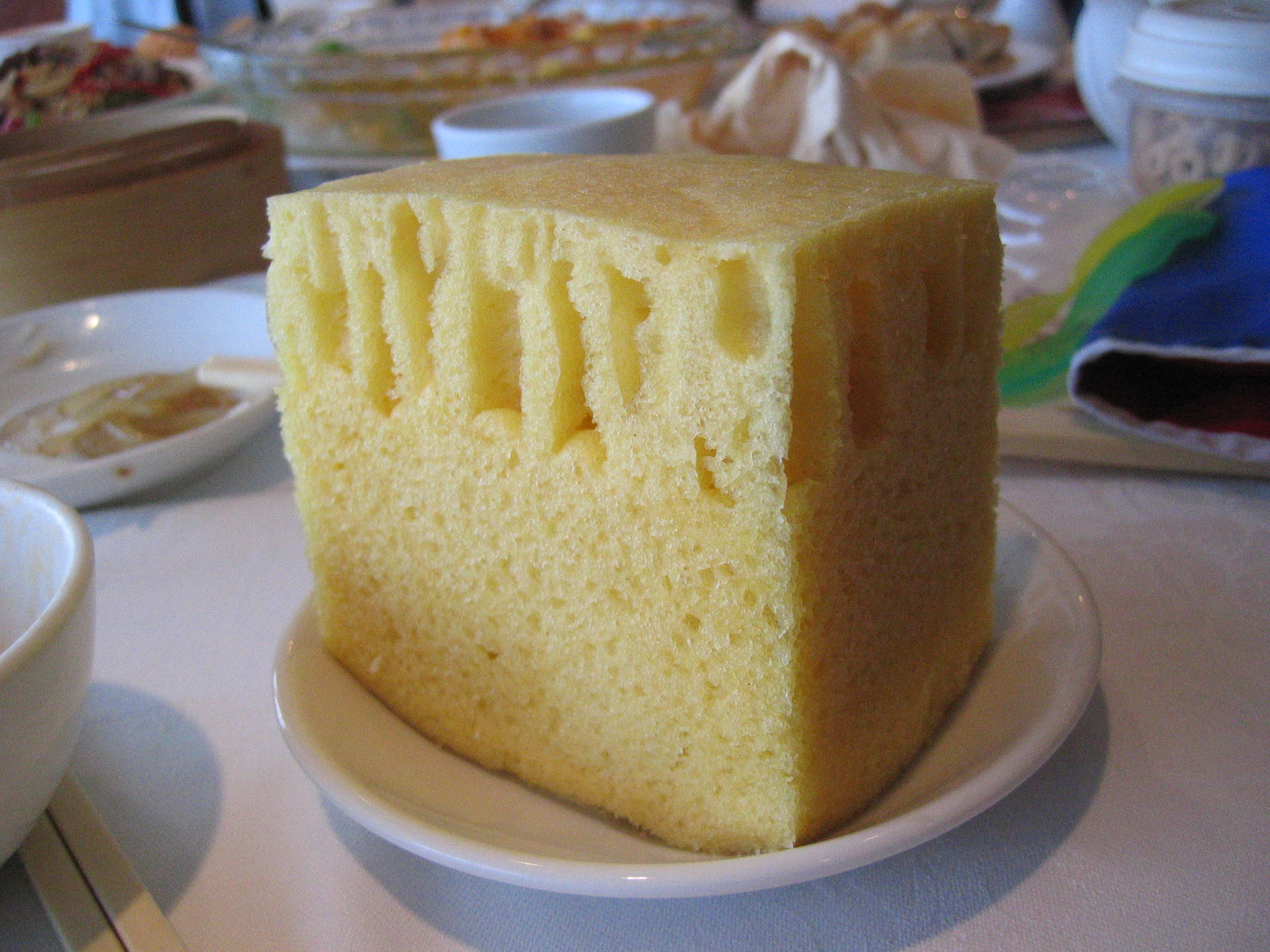 馬拉糕, a kind of sponge cake that could be found in Cantonese restaurants. Malay steam cake